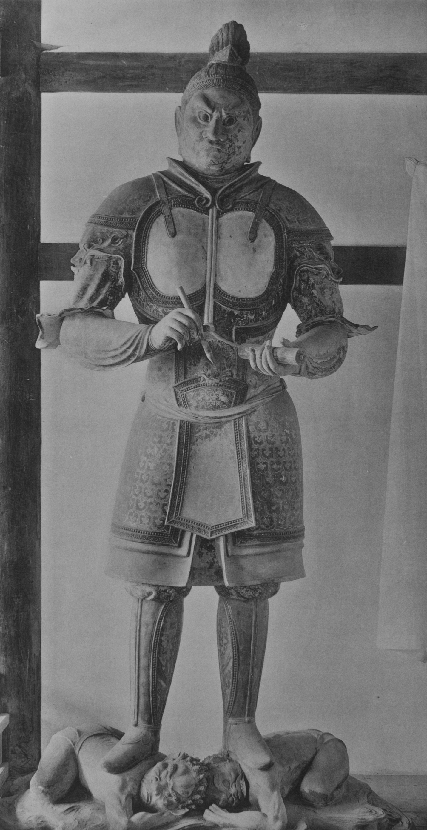 Hokkedō, Tōdai-ji, Nara, Japan